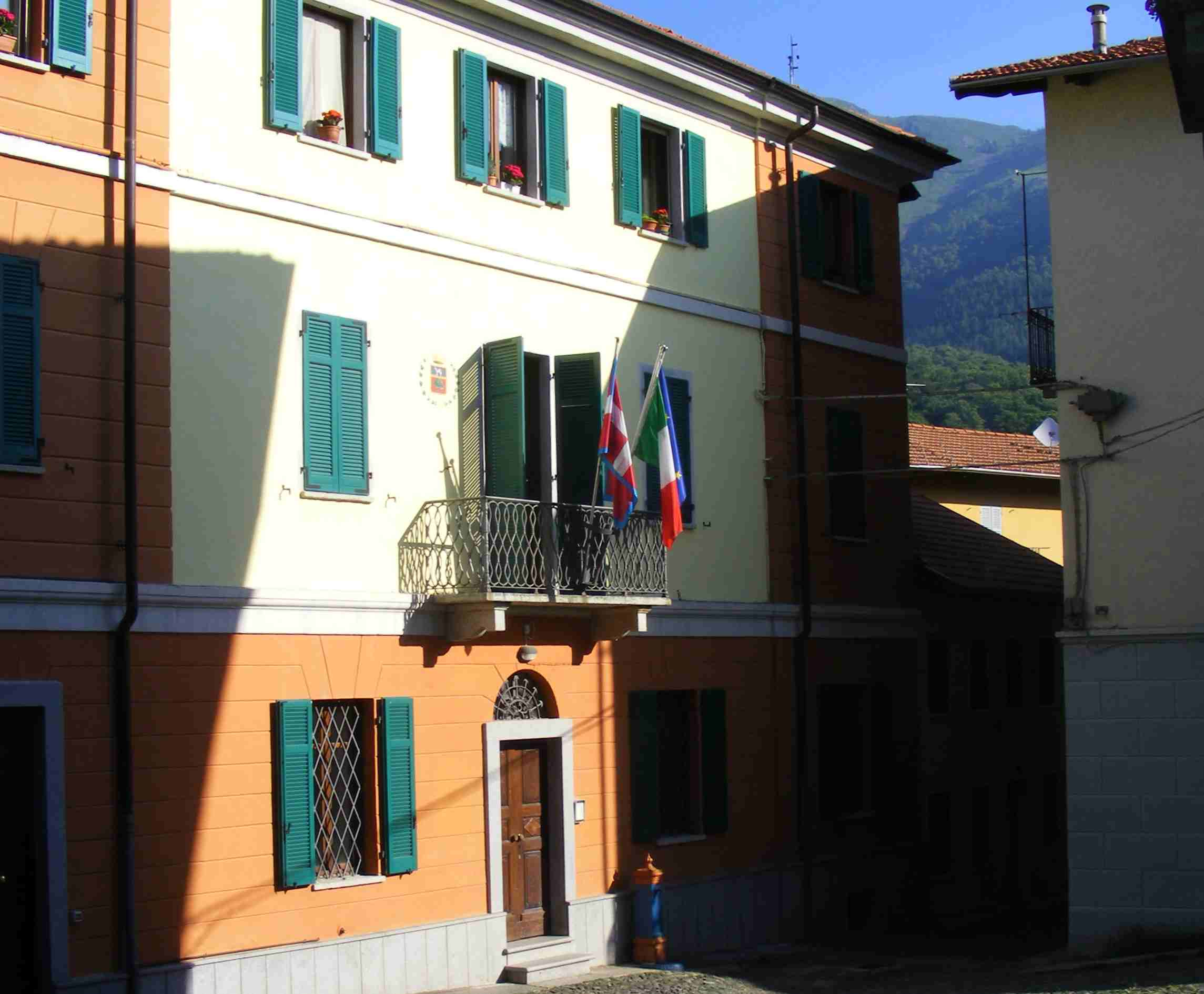 Camandona, town hall (BI, Italy)